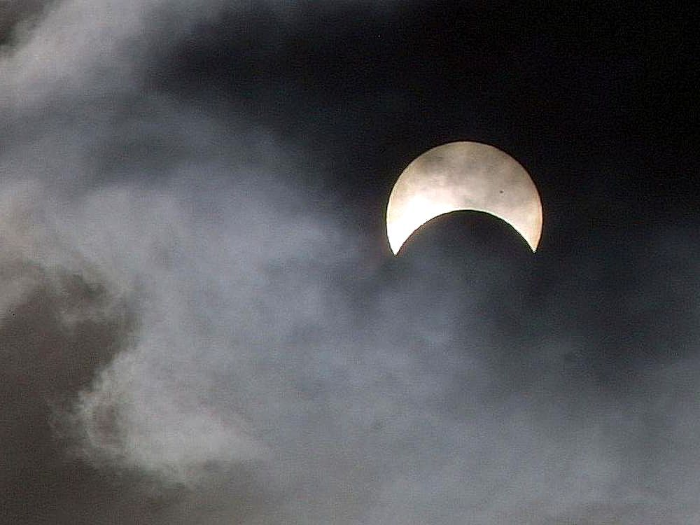 Image title: Eclipses sun Image from Public domain images website